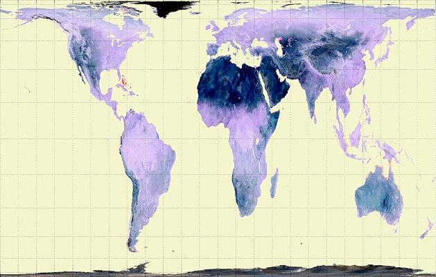 color negative of a composite image of Earth by NASA, Gall-Peters projection